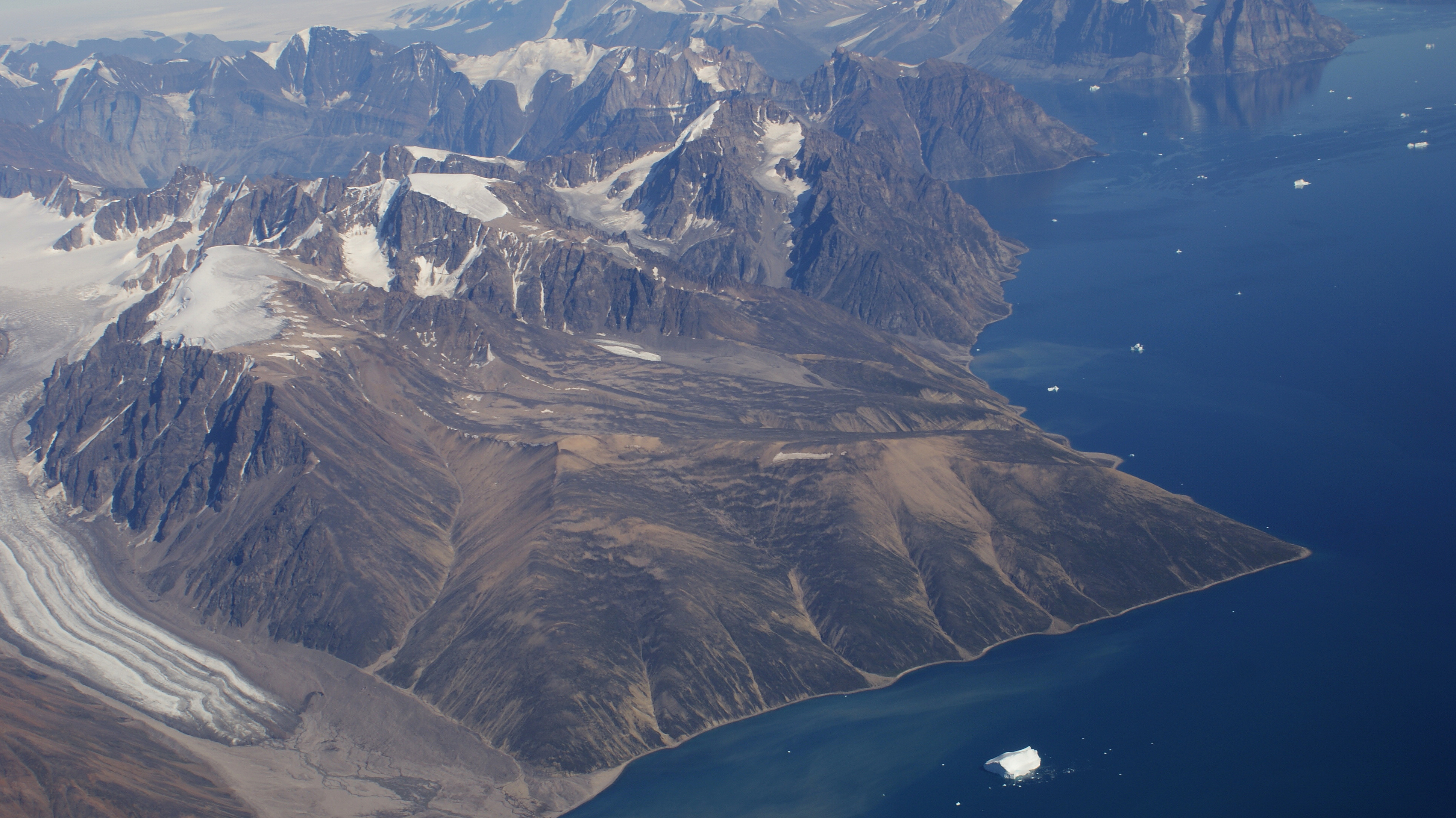 Aerial view of the highly mountainous Upernivik Island, Greenland. Photographed from the Air Greenland de Havilland Canada Dash-7 during the Ilulissat-Upernavik flight. Dead Serminnguaq glacier on the far left, southwestern cape and Uummannaq Fjord on the right. The cape is unusual in that the meeting shorelines are close to straight, and the angle is close to right, at circa 100 degrees.